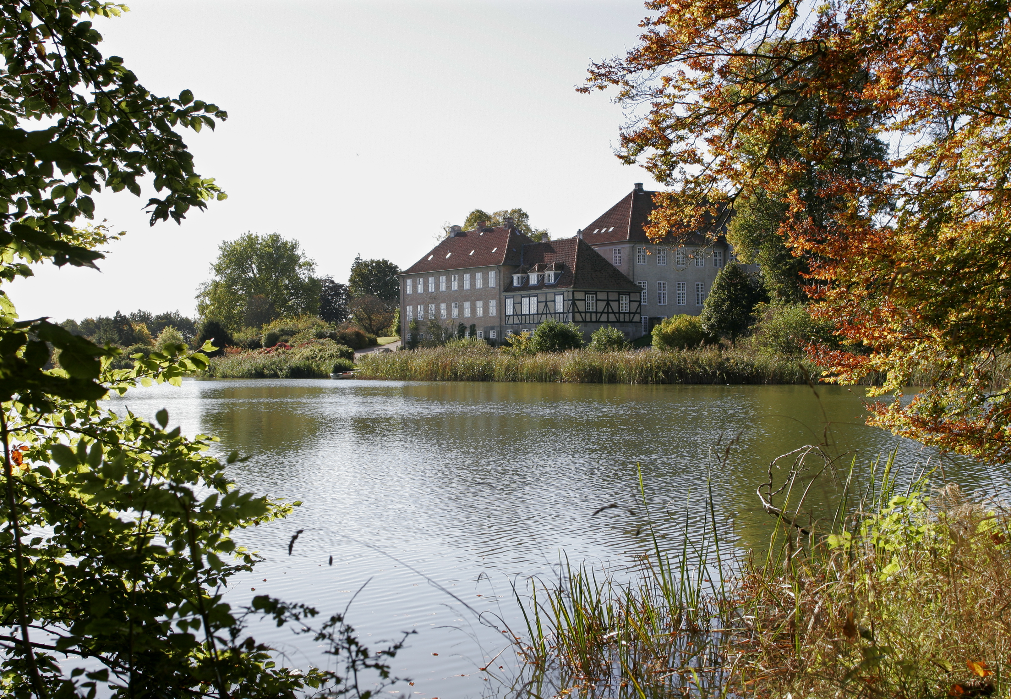 Skjoldnaesholm Hotel & Konference, Ringsted Municipality, Denmark